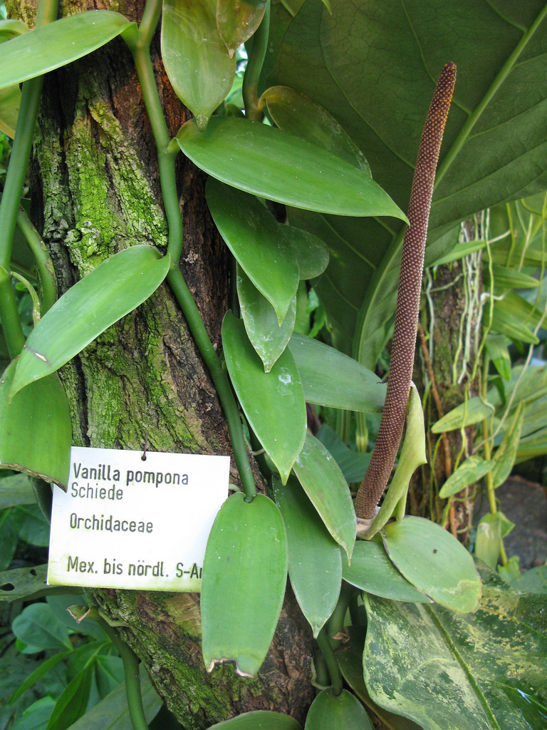 Vanilla pompona vine on tree trunk (left), and the brown spadix and large leaf of an unidentified species of Aroideae (right; this is not a vanilla bean)